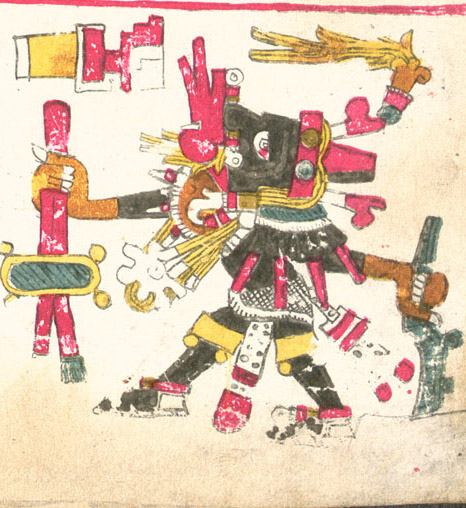 A drawing of Ehecatl, one of the deities described in the Codex Borgia